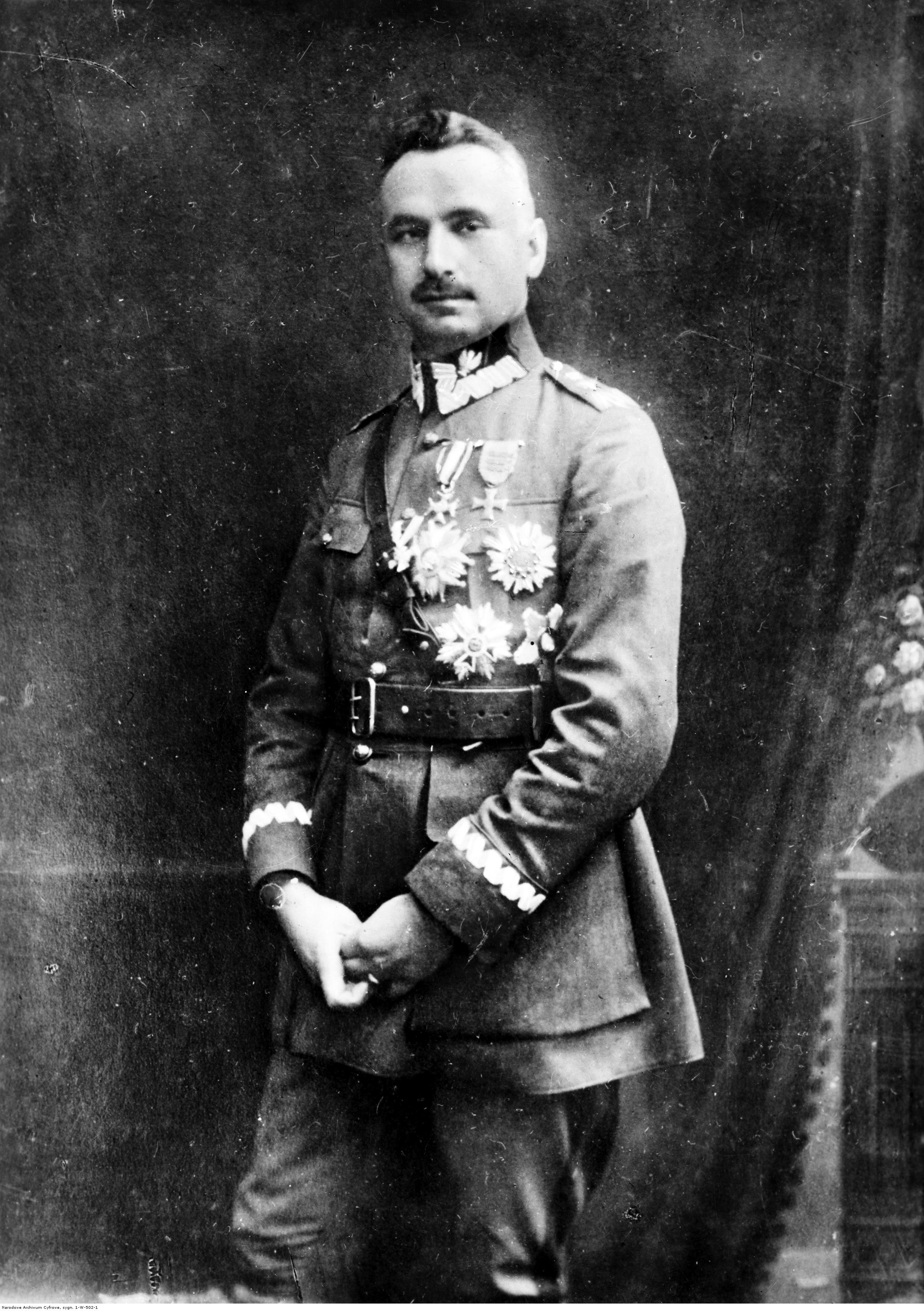 General Kazmierz Sosnkowski